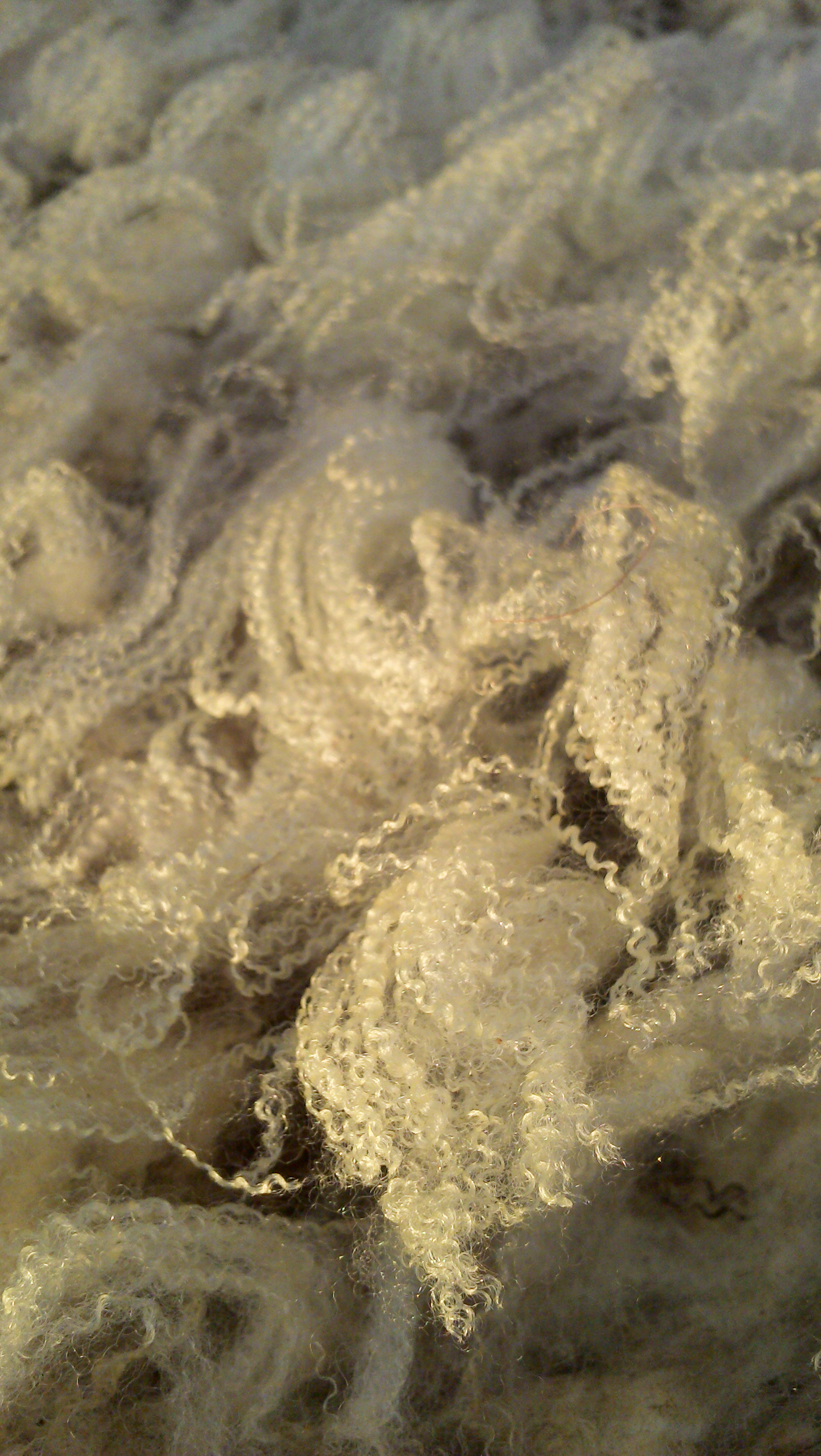 Bluefaced Leicester Shearling Wool